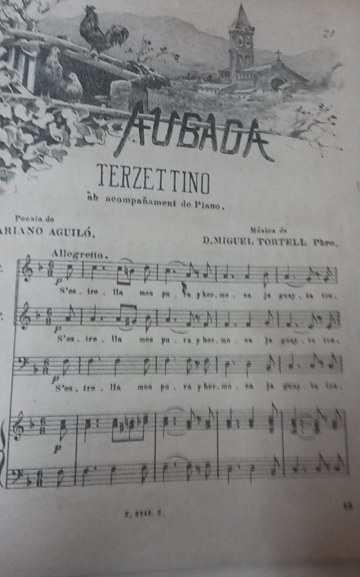 Composición Aubada